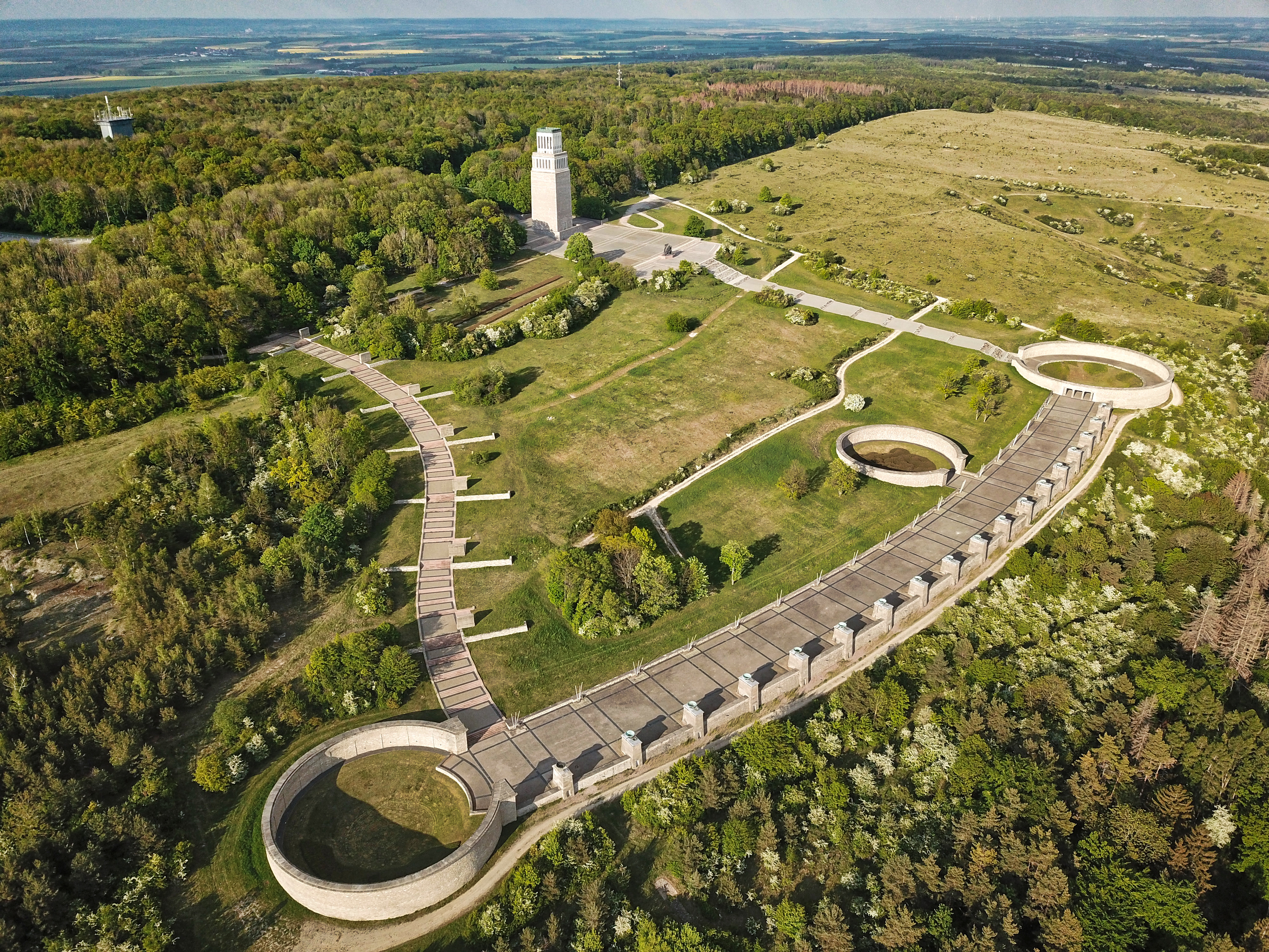 This photograph was taken by "Ordercrazy" (Thomas Springer) using a drone and released in the public domain according to the CC0 licence. You are free to use this file free of charge and without any conditions or restrictions of the photographer. If you still want to credit the author, you can do this stating Wikipedia/Thomas Springer.I do fly responsibly. I am a licensed UAV-pilot, my drones are insured and registered with the bavarian aviation authorities. Um mir ein Belegexemplar zu senden, kontaktiere mich unter / To send me a voucher copy, please contact me → DJI Inspire 2 X5S. DJI Mavic Pro Platinum. Thomas Springer (1969–) Alternative names OrdercrazyDescriptionGerman Wikimedian, Gesellschafter and chief executive officerFotografDate of birth 23 April 1969 Location of birth Munich, Germany Authority control : Q23978506 VIAF: 226099595 GND: 1018968806 creator QS:P170,Q23978506